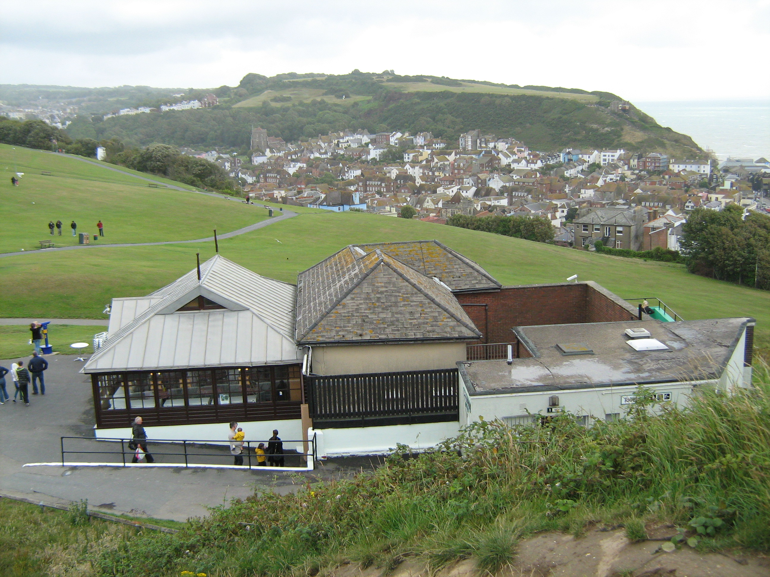 Topstation at the West Hill Cliff Railway in Hastings, England. July 17, 2011